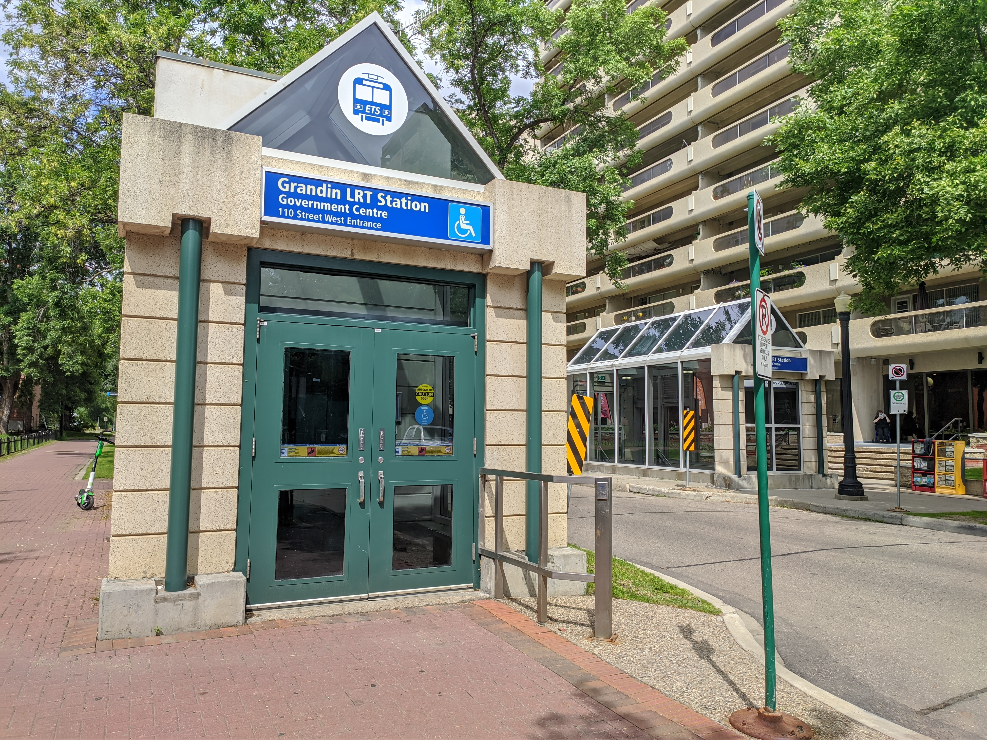 110 Street entrances to Grandin station on the Edmonton LRT. West entrance is visible on the left-centre of the frame, and in the far right, the East 110 Street entrance is seen. These entrances are on both sides of 110 Street. July 19, 2020.